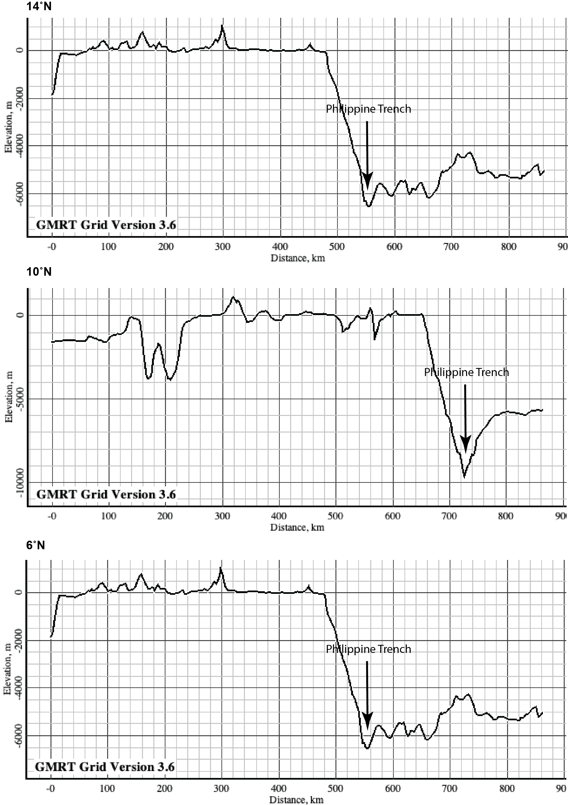 The deepest part of the trench around 10˚N and shallowing trend due north and south